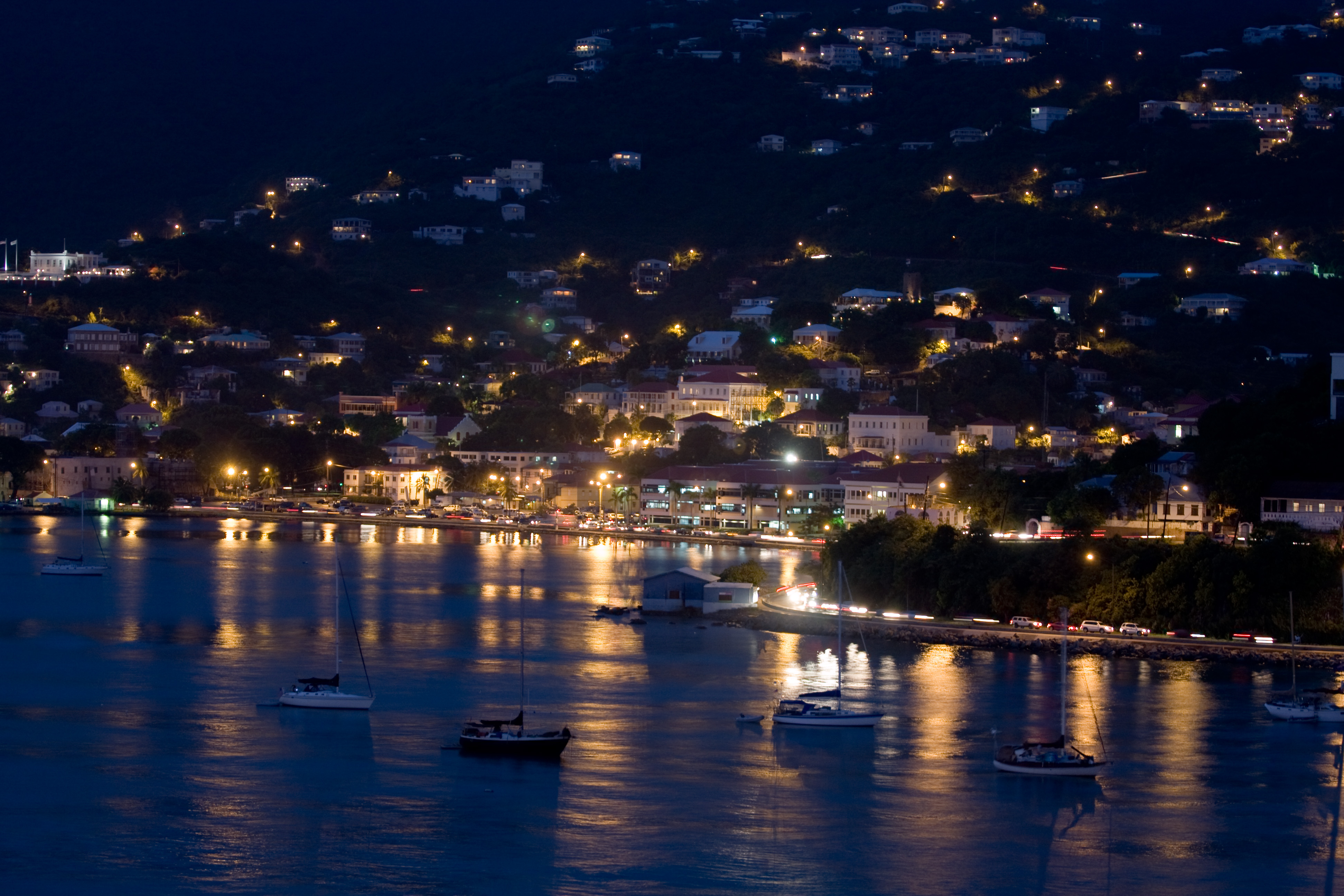 St Thomas, US Virgin Islands